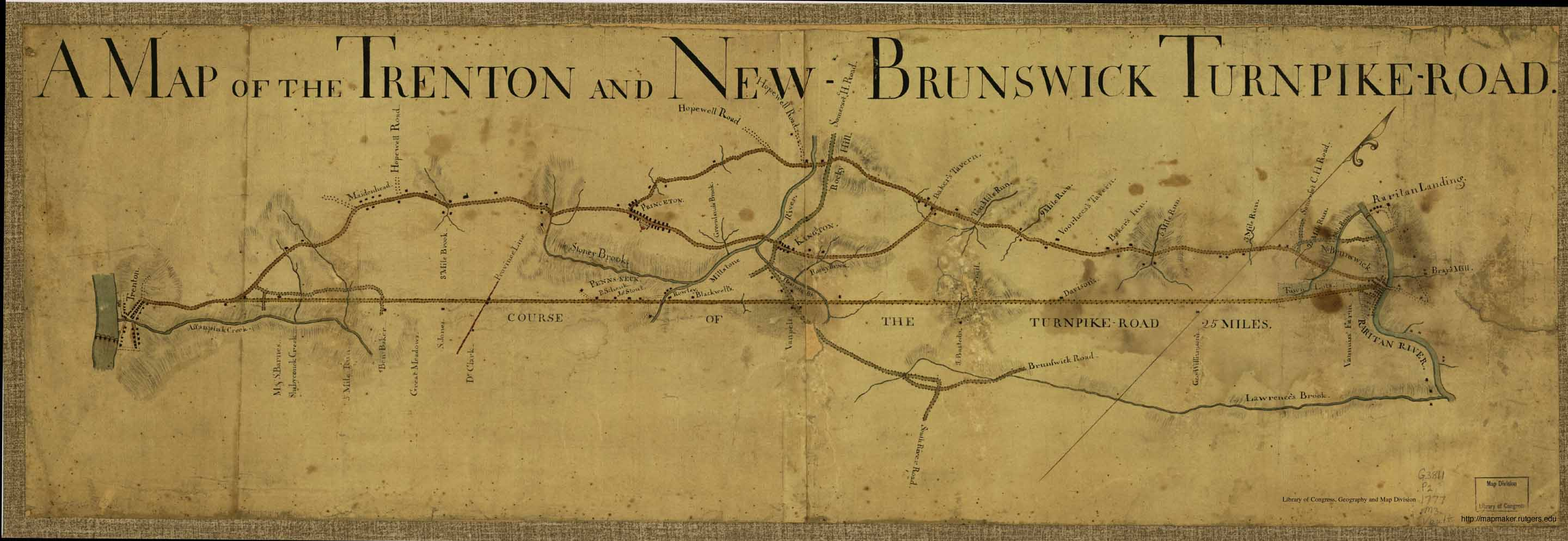 A map of the Trenton and New Brunswick Turnpike, as it was to be laid out.